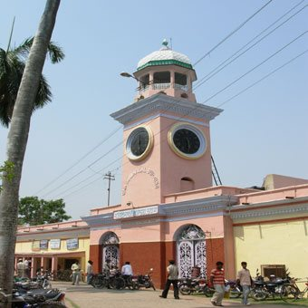 This is Front Gate of Rajendra College,Chhapra.